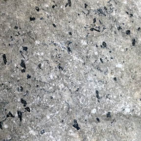 Closeup photograph of a geologic hand sample of andesite, a fine-grained intermediate igneous rock.